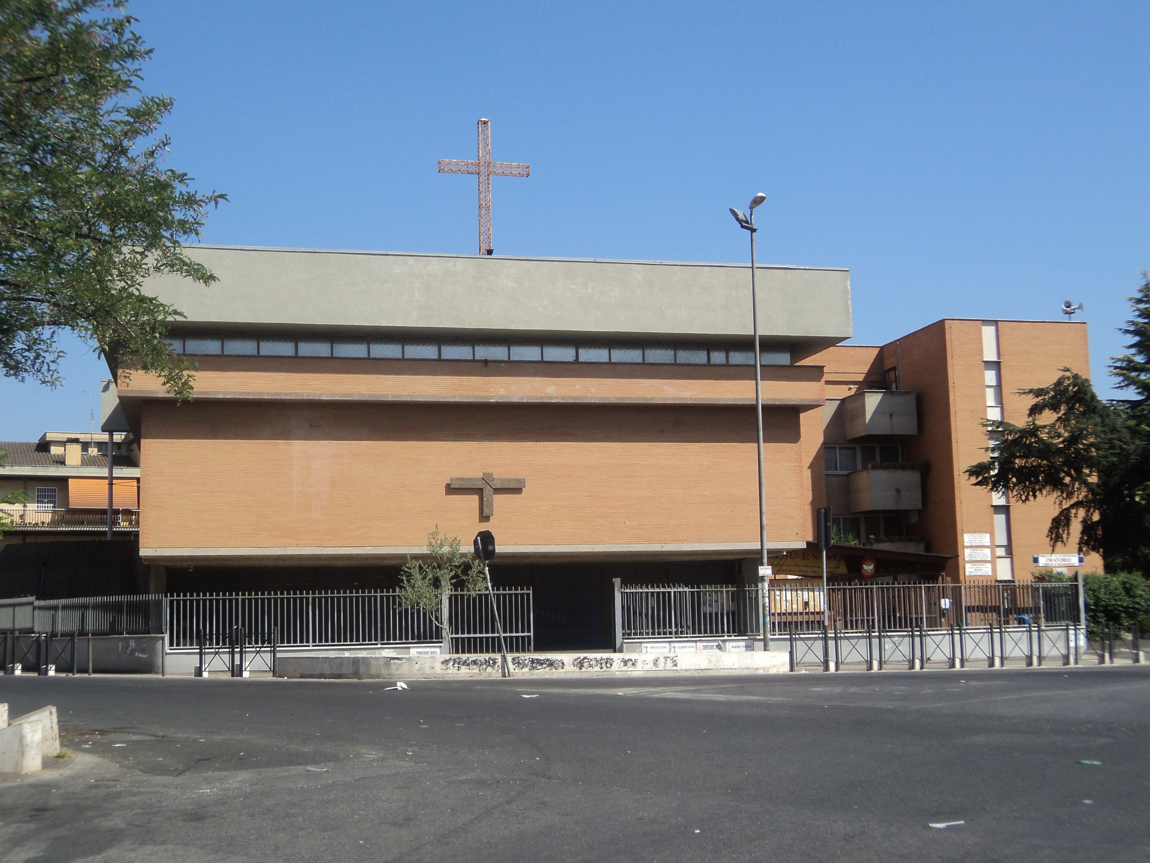 Church of Nostra Signora di Czestochowa. For more pictures